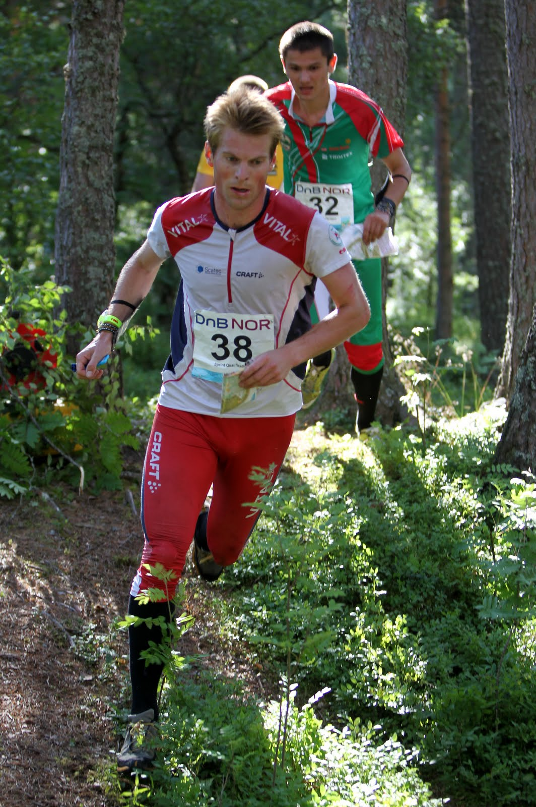 Øystein Kvaal Østerbø and Ivaylo Kamenarov at World Orienteering Championships 2010 in Trondheim, Norway